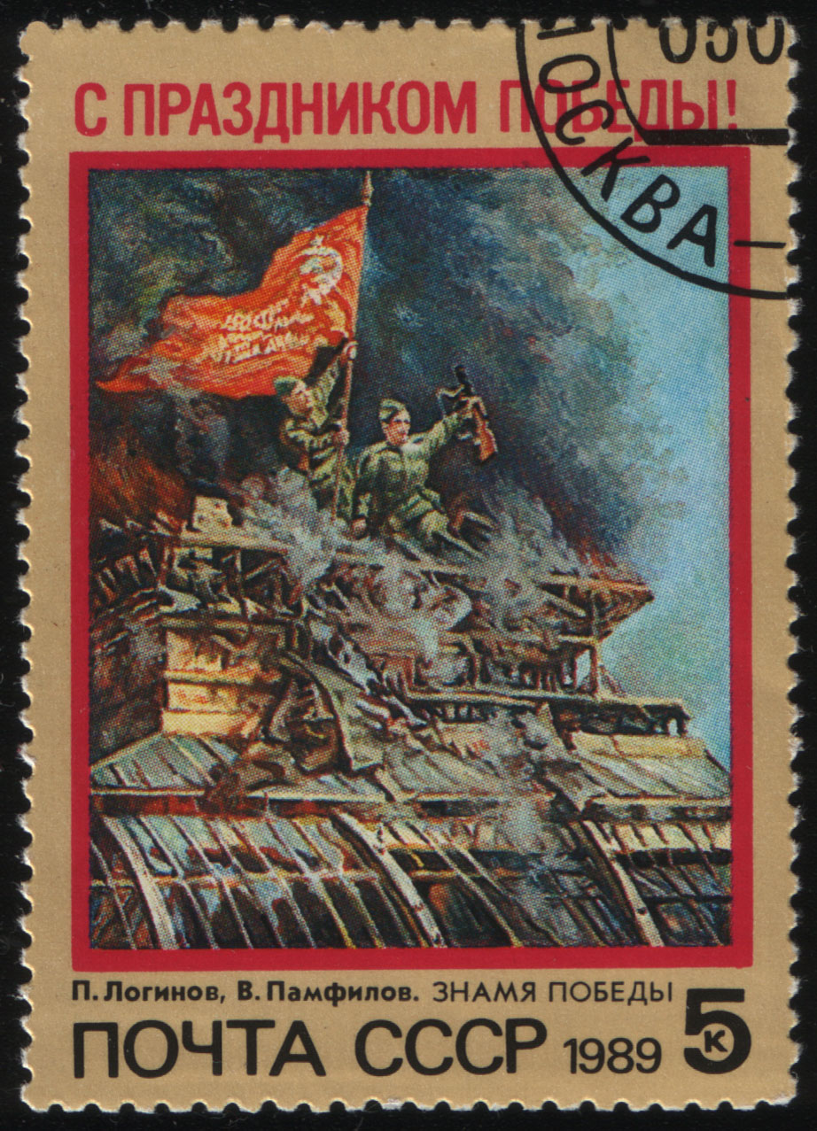 Stamp of USSR, Victory Day. Soviet flag over Berlin, 1989